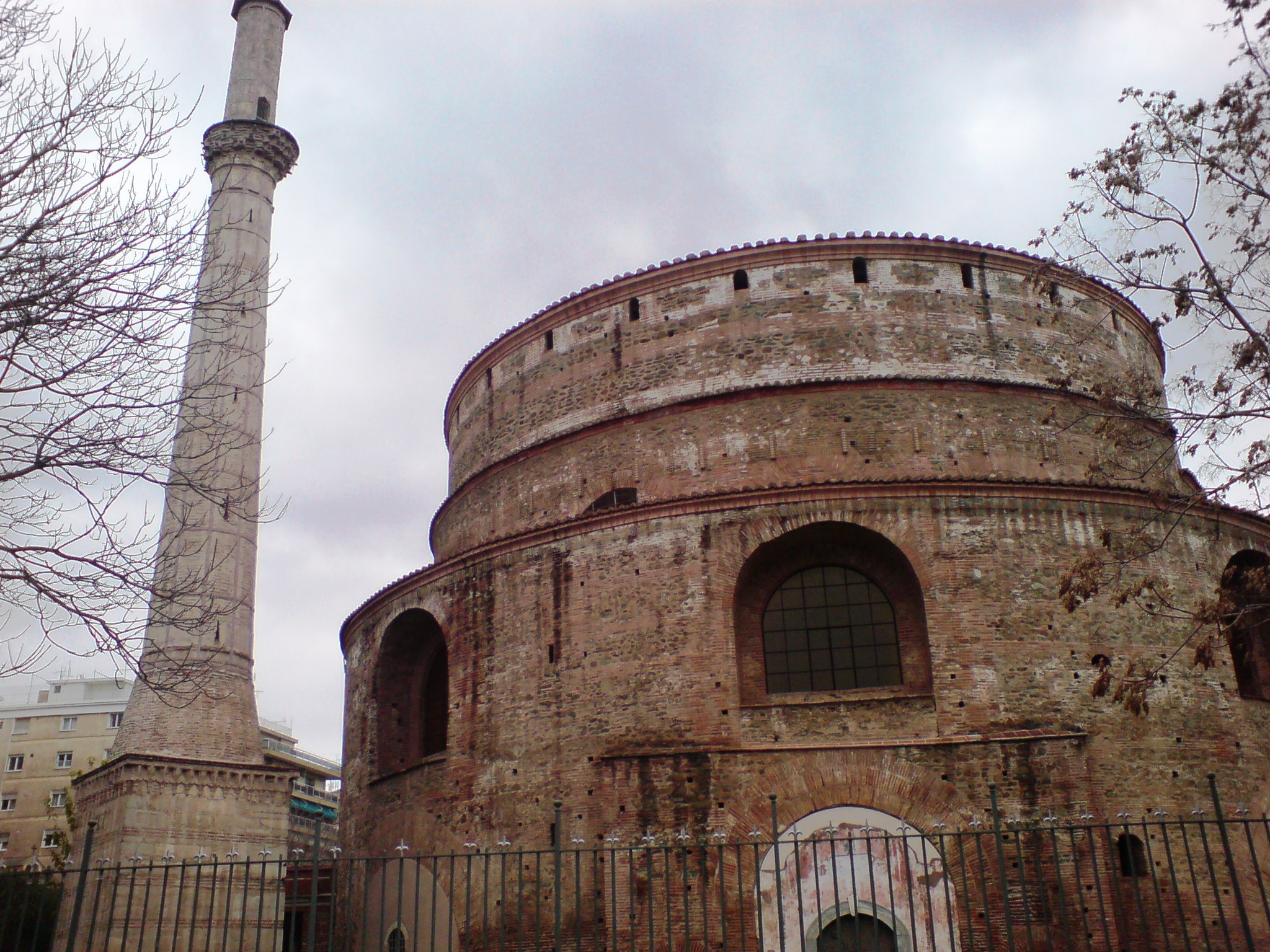 Rotunda yard, Thessaloniki: A view